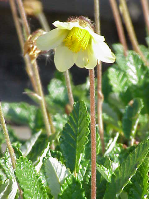 Species: Dryas drummondii Family: Rosaceae Image No. 6